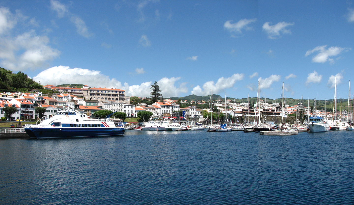 City of Horta in Faial Island, Azores